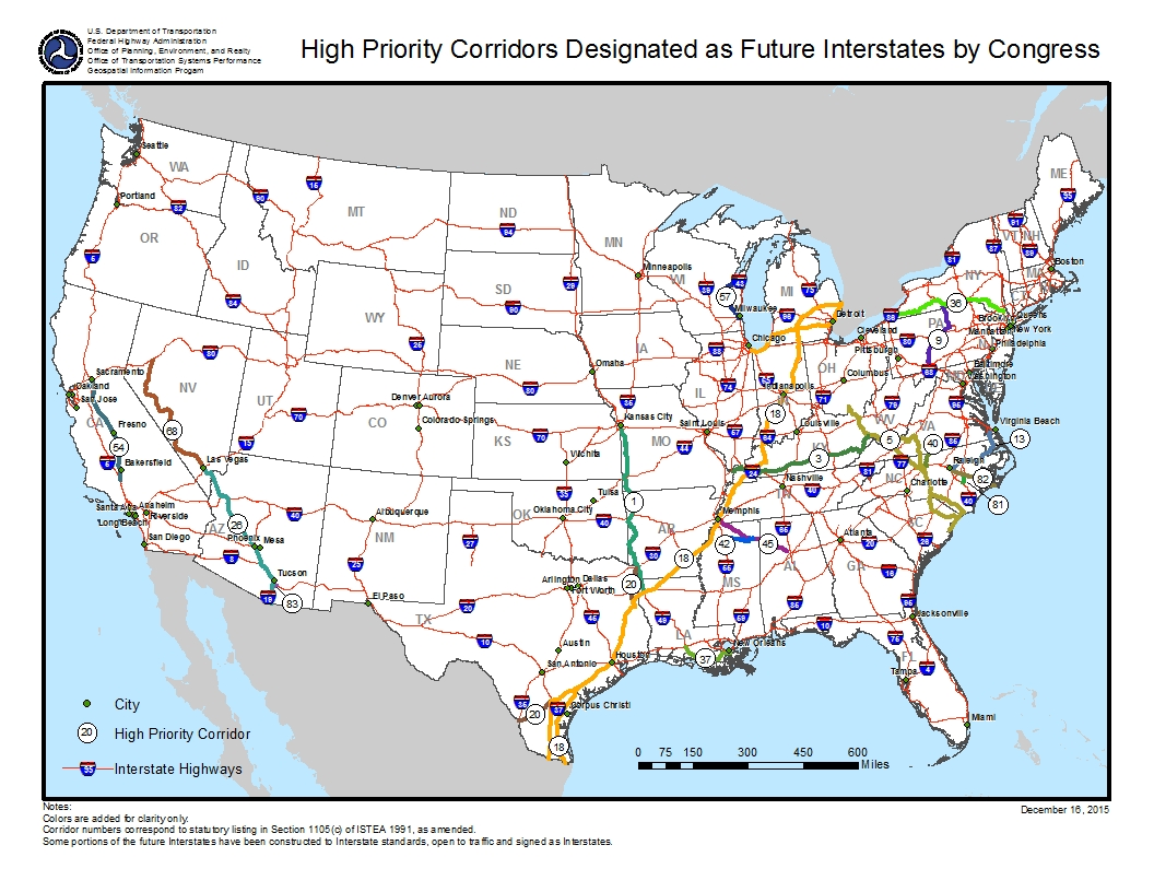 A map of Congressionally assigned corridors that are meant to be interstate highways